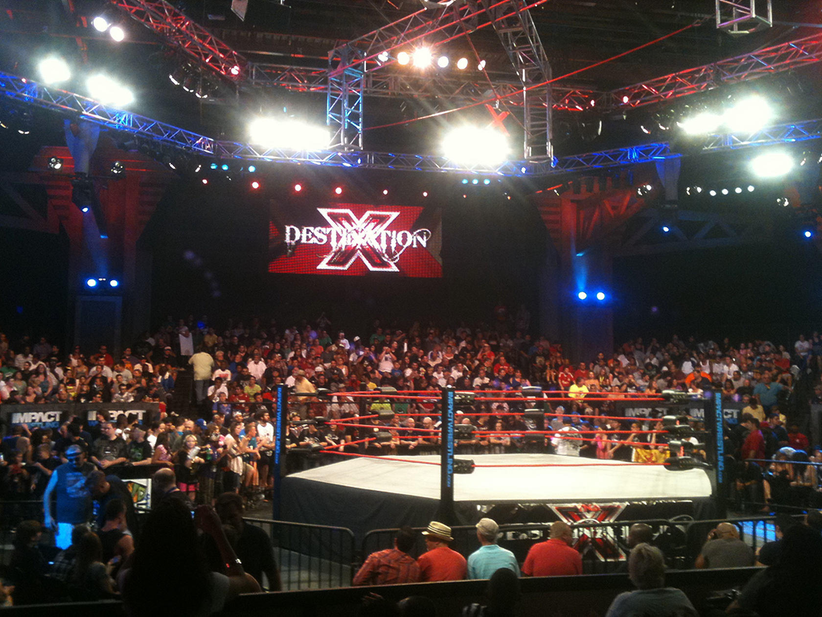 TNA Destination X LIVE from Sound stage 21 at Universal Florida Orlando Resort